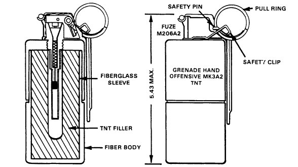 Drawing of the Mk 3A2 concussion grenade